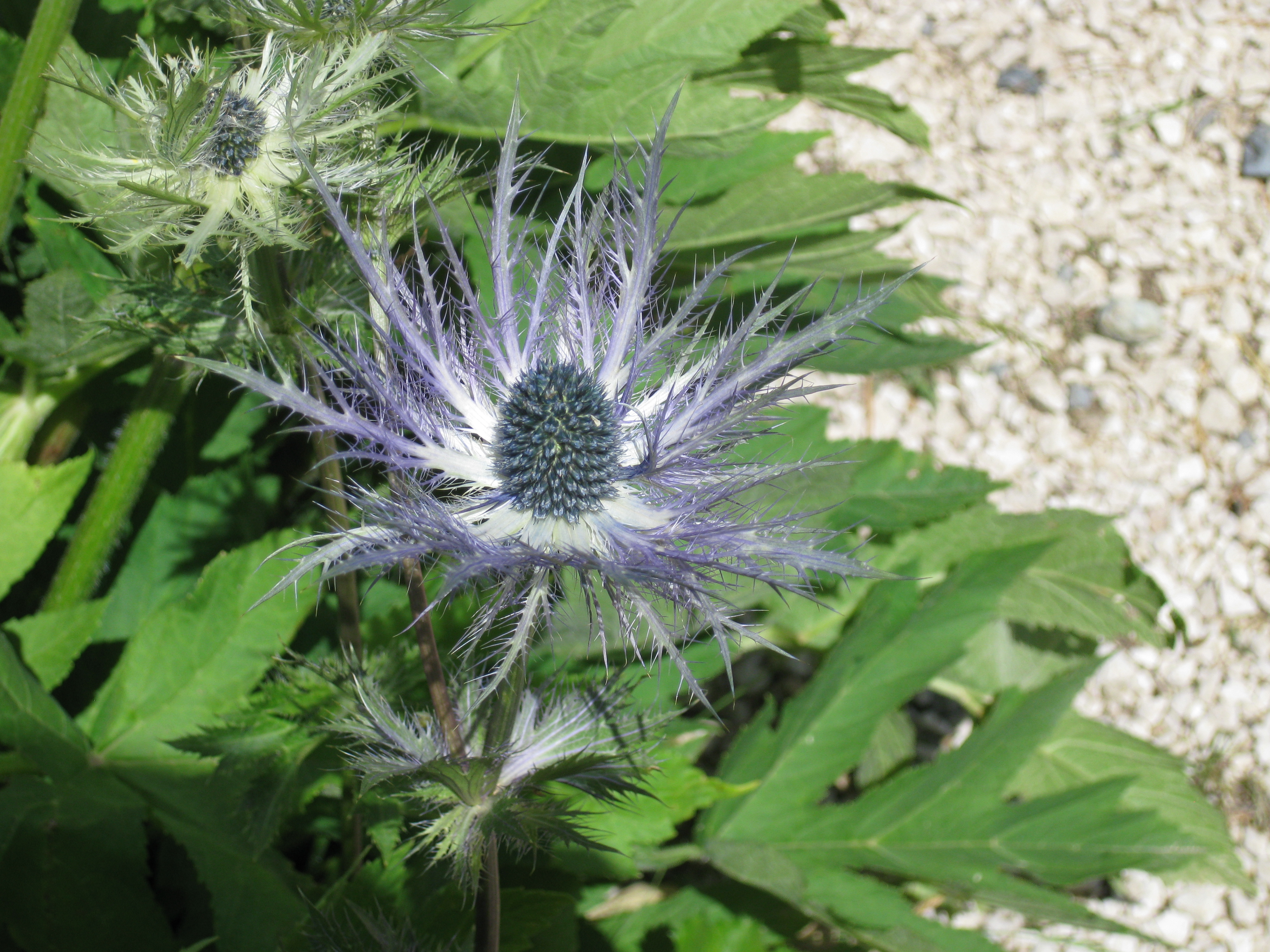 Eryngium alpinum in the Jardin Botanique Alpin du Lautaret